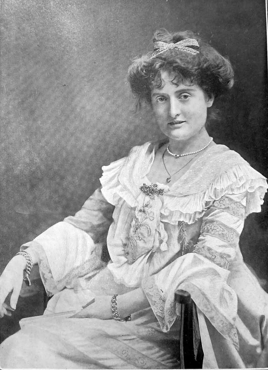 The British actress Beatrice Ferrar (1876-1958) - The Tatler, 9 December 1903